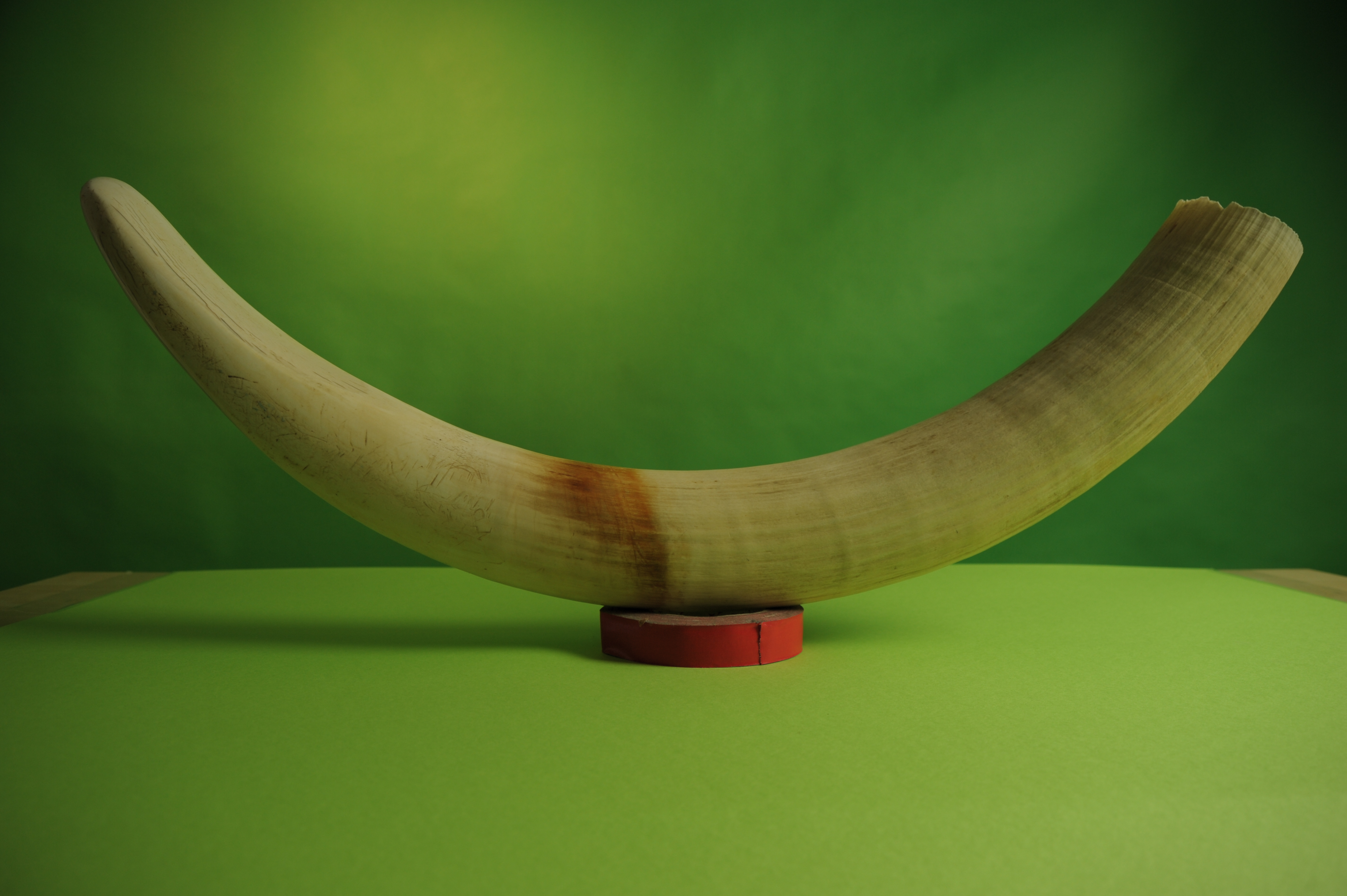 African elephant tusk